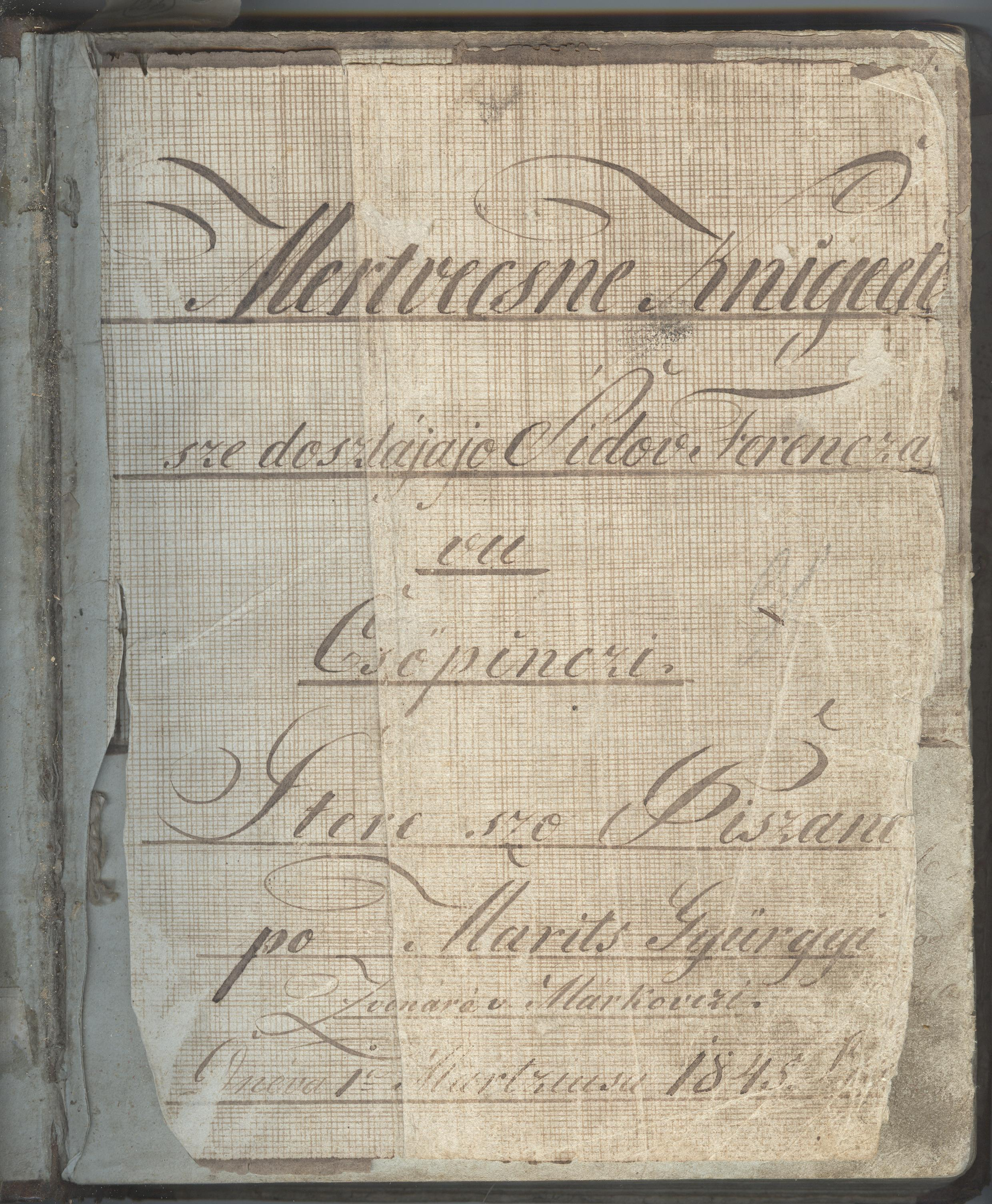 Sidov Ferenc-György Marits: Mertvecsne knige (Dead book), prekmurian (prekmurščina) manuscript from country of Čepinci and Markovci (1845)